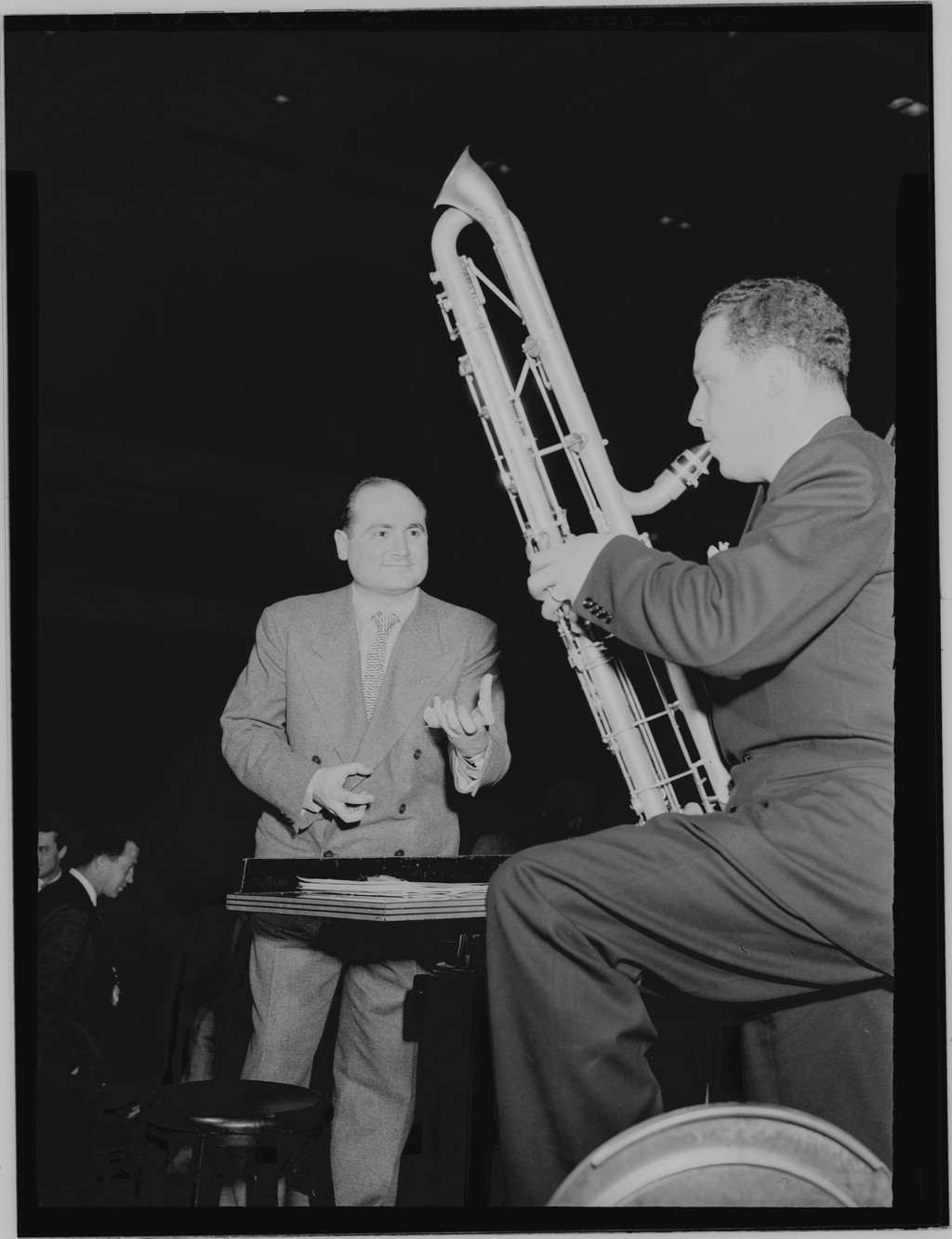 Jerry Gray (arranger) by Gottlieb, William P., 1917-, photographer. [Portrait of Jerry Gray, New York, N.Y., between 1946 and 1948] 1 negative : b&w ; 3 1/4 x 4 1/4 in. Notes: Gottlieb Collection Assignment No. 535 Purchase William P. Gottlieb Forms part of: William P. Gottlieb Collection (Library of Congress). Subjects: Gray, Jerry Glenn Miller Orchestra(?) Jazz musicians--1940-1950. Composers--1940-1950. Conductors (Music)--1940-1950. Pianists--1940-1950. Saxophonists--1940-1950. Format: Portrait photographs--1940-1950. Group portraits--1940-1950. Film negatives--1940-1950. Rights Info: Mr. Gottlieb has dedicated these works to the public domain, but rights of privacy and publicity may apply. Repository: (negative) Library of Congress, Prints & Photographs Division, Washington D.C. 20540 USA, Part Of: William P. Gottlieb Collection (DLC) 99-401005 General information about the Gottlieb Collection is available at Persistent URL: Call Number: LC-GLB13- 1220